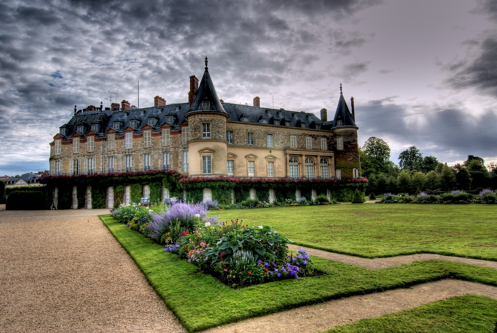 Rambouillet's castle HDR with 3 shots at (-2,0,2) IL and tonemapped with photomatix. View On Black